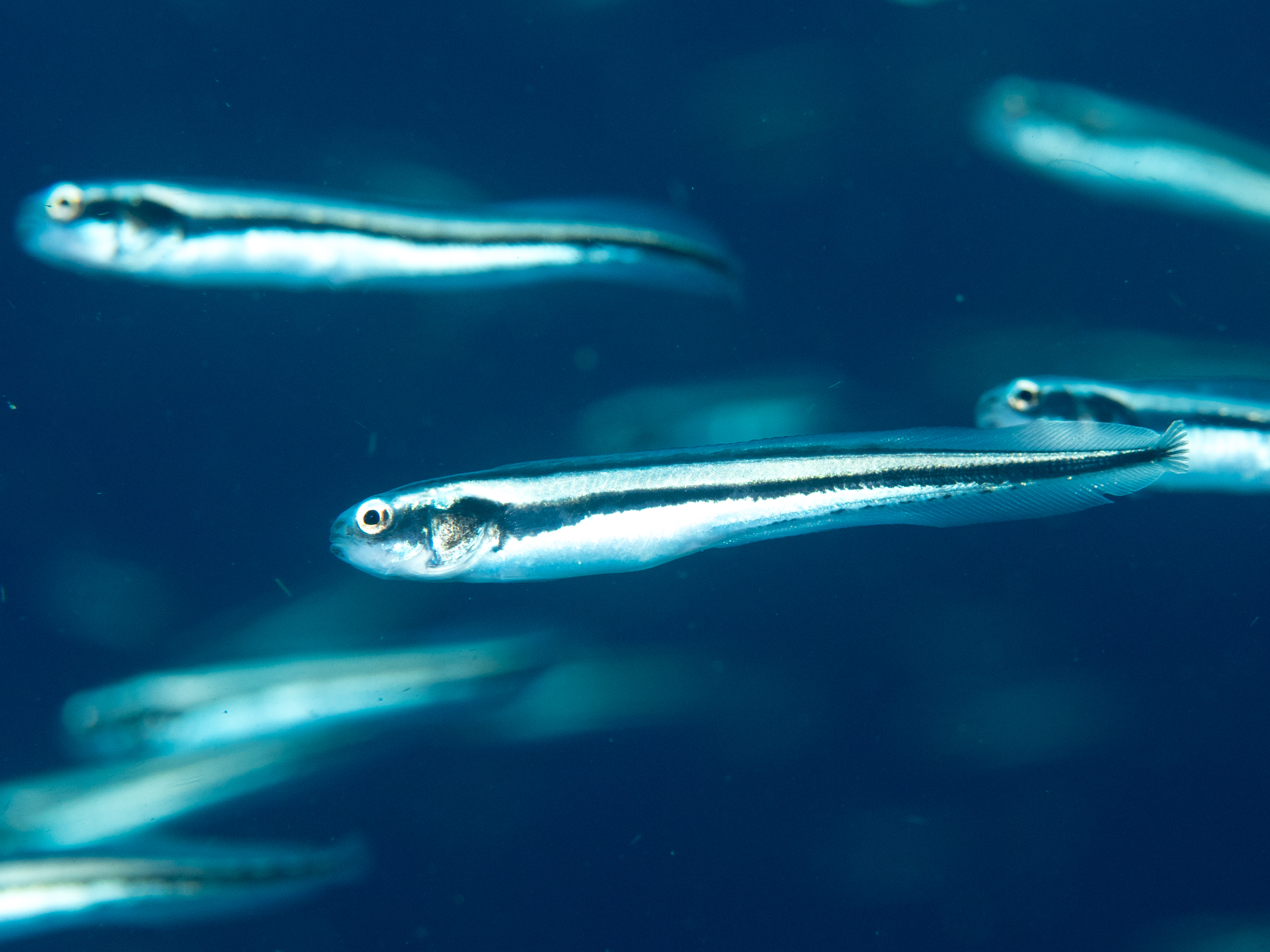 Convict blenny (Pholidichthys leucotaenia); Rao west of Morotai in Indonesia